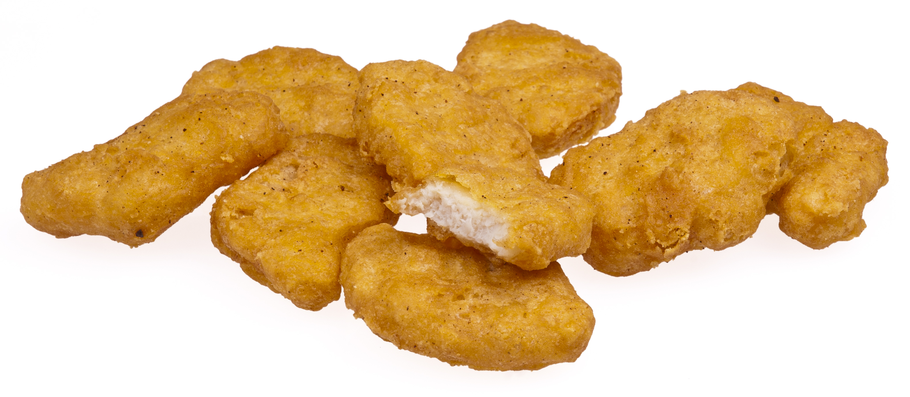 A pile of McDonalds Chicken McNuggets, as bought in America.